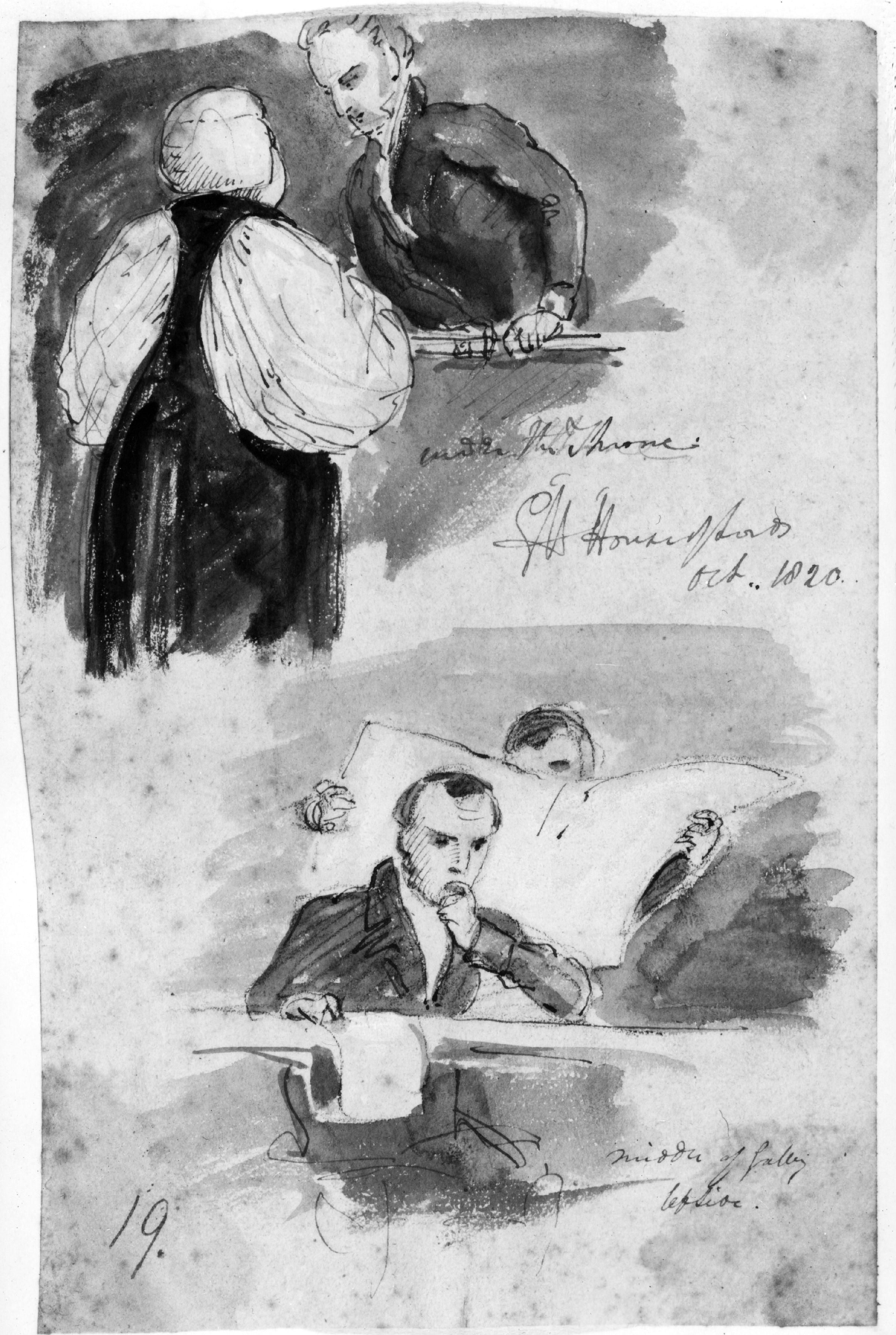 Bowyer Edward Sparke and other figures, by Sir George Hayter (died 1871). All images in this batch have been confirmed as author died before 1939 according to the official death date listed by the NPG.